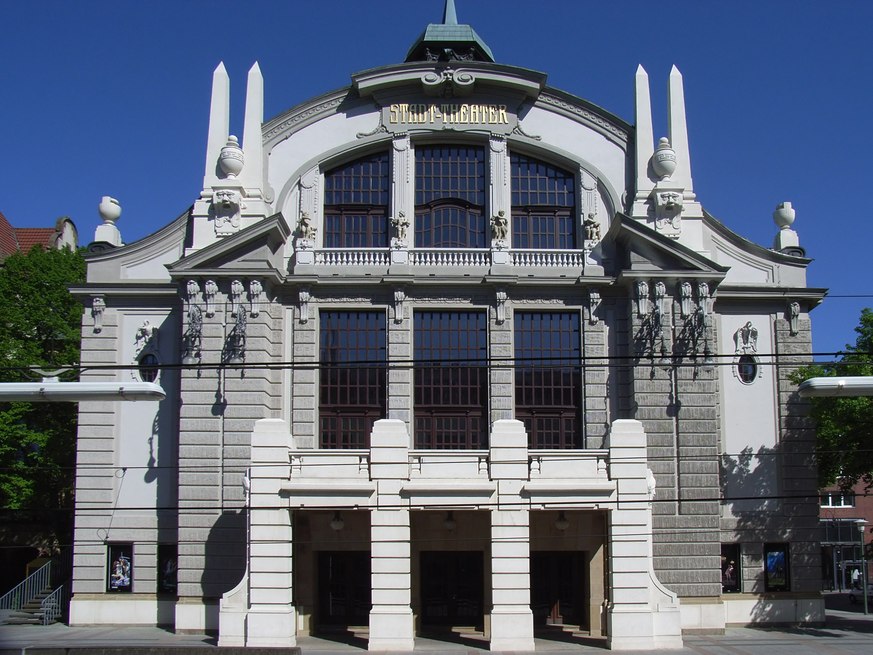 Bielefeld, Germany: Theather